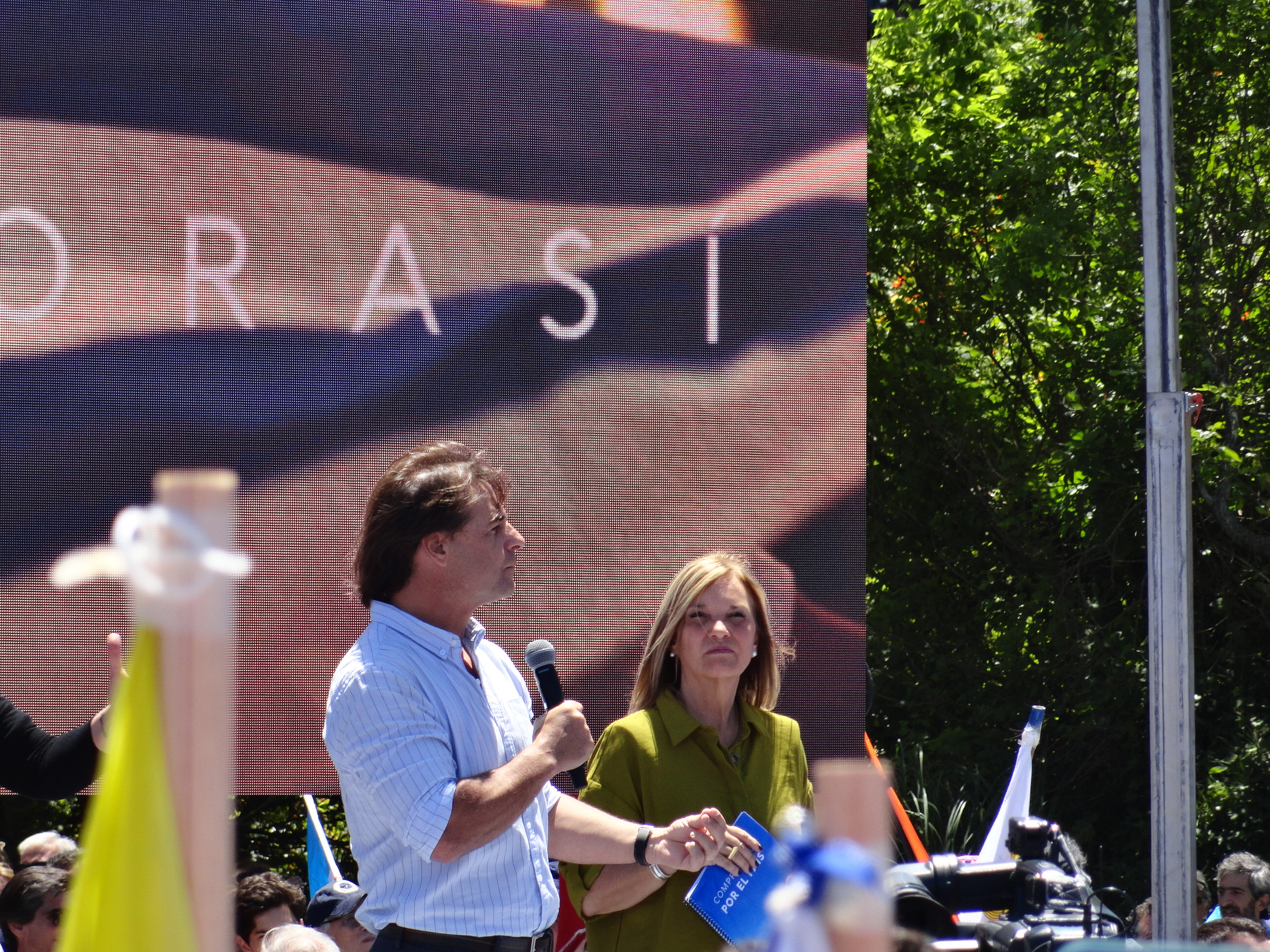 Meeting at the Molino de Pérez by the "Compromiso por el país" coalition, before the second round of the 2019 Uruguay national elections.